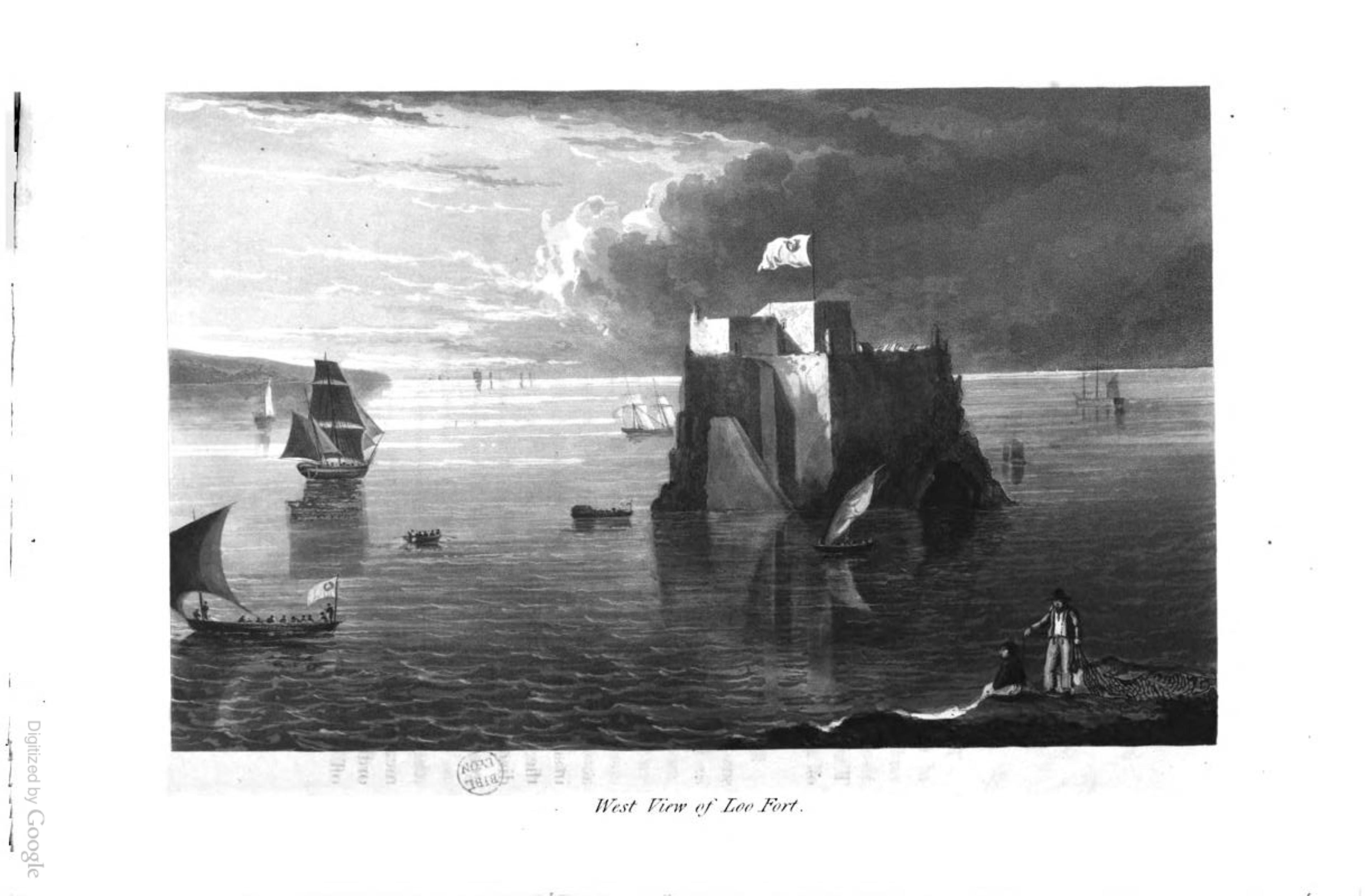 A History of Madeira, Plate 117